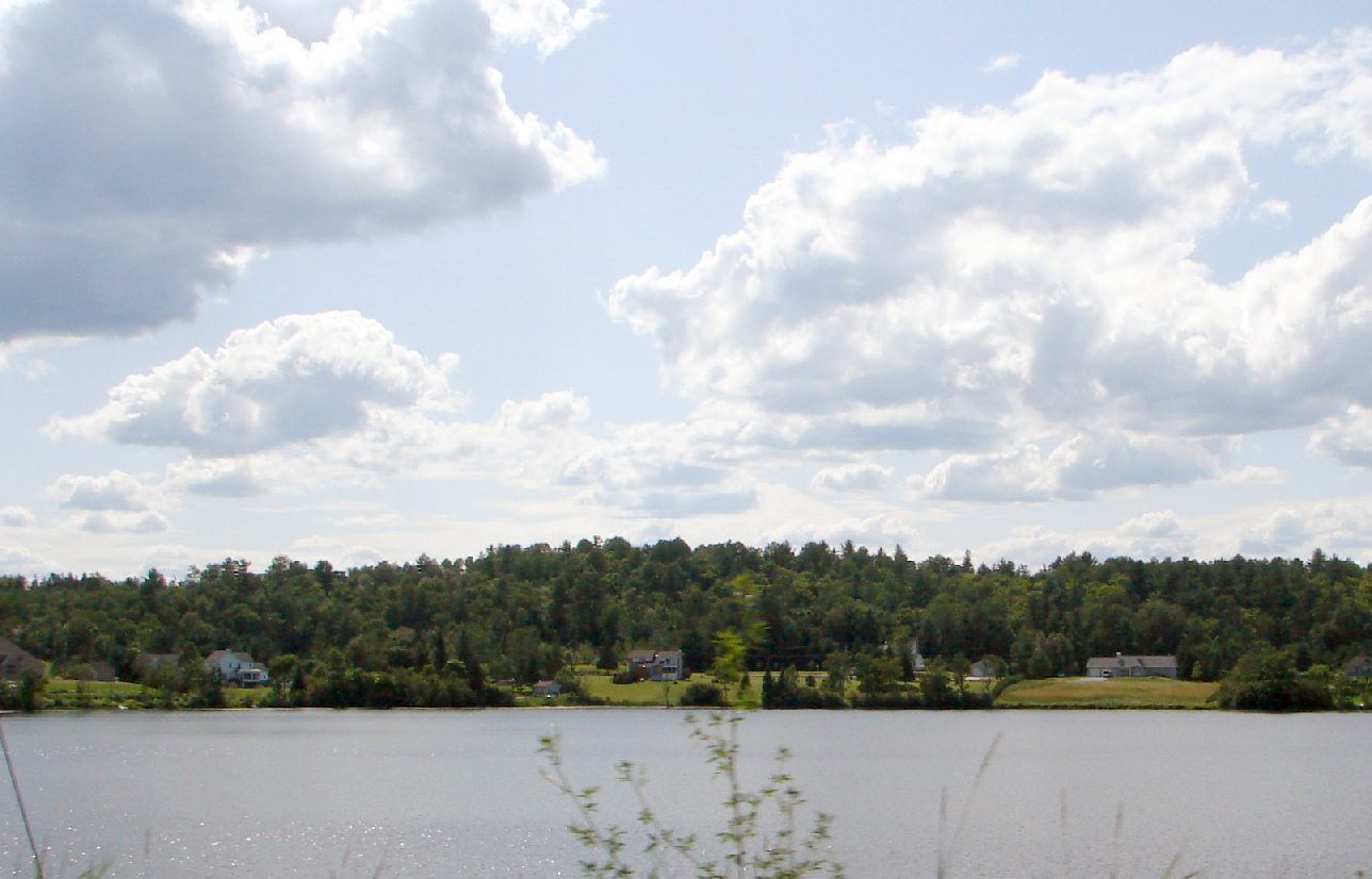 Evens Lake in Egan-Sud, Quebec, Canada